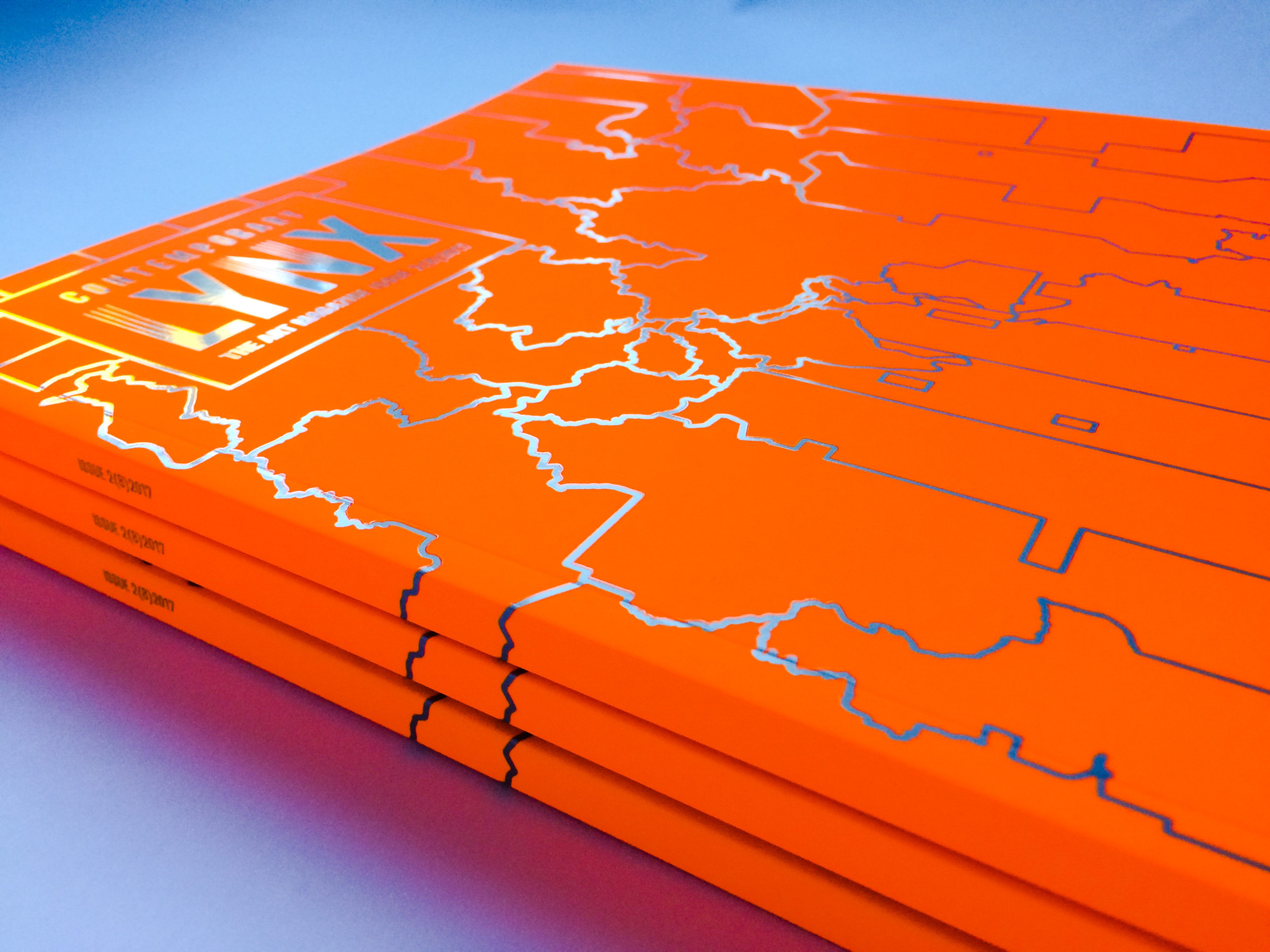 Contemporary Lynx Magazine to półrocznik skupiony wokół zagadnień sztuki współczesnej, designu, fotografii oraz kolekcjonowania. To jedyny taki przewodnik po polskiej kulturze wizualnej dla zainteresowanych czytelników z całego świata. Contemporary Lynx publikowany jest w języku angielskim i rozdystrybuowany w Europie, Azji oraz Stanach Zjednoczonych. Wydawcą jest Contemporary Lynx Ltd z siedzibą w Londynie.